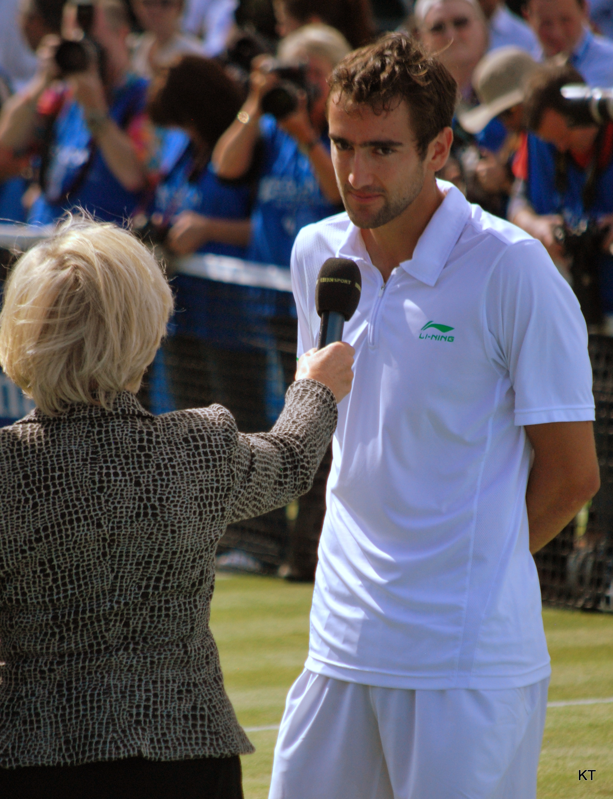 Aegon Championships winner 2012.